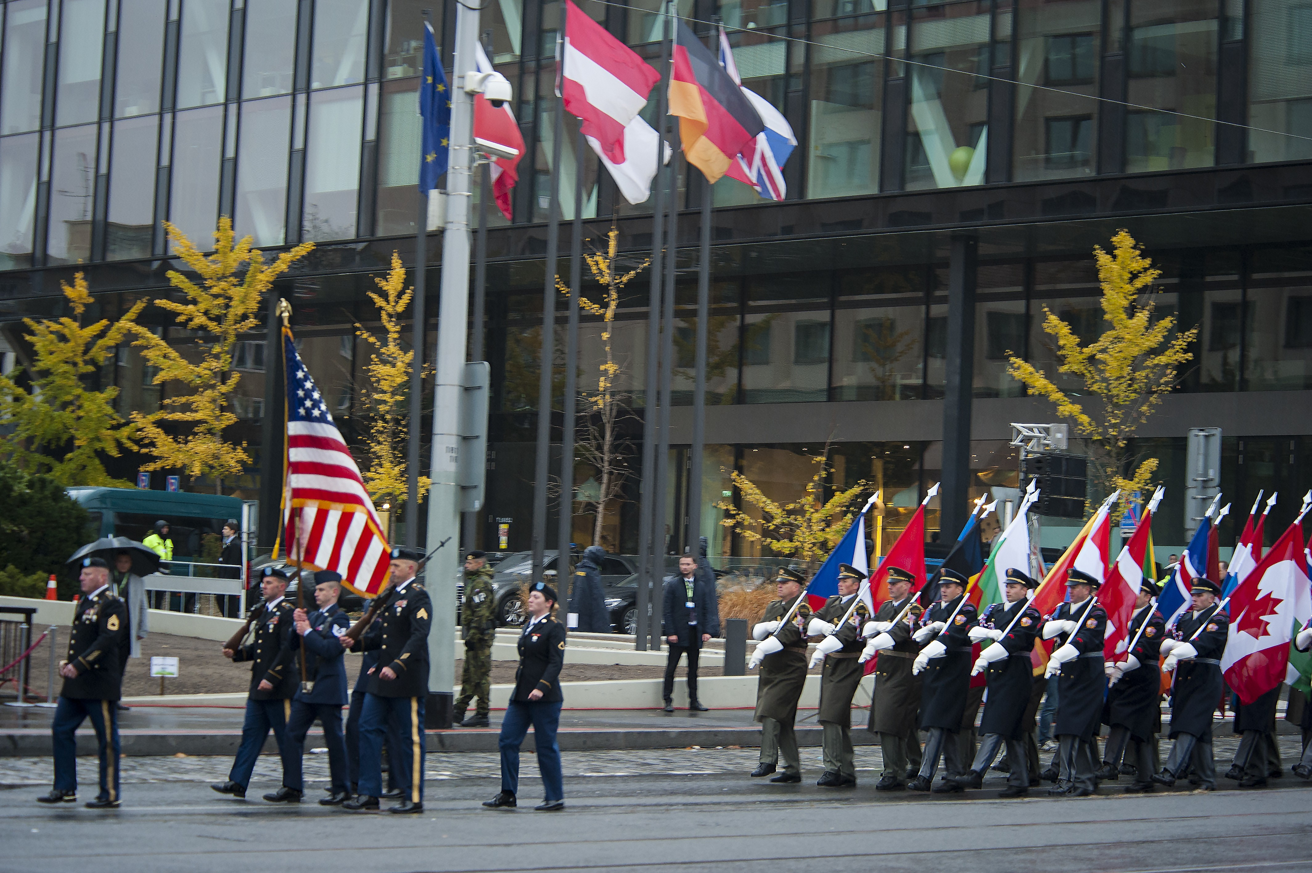 Soldiers and Airmen of the Nebraska and Texas National Guard carry the United States flag while representing the United States during the Czech Republic Military Parade, Oct. 28, in Prague, Czech Republic.